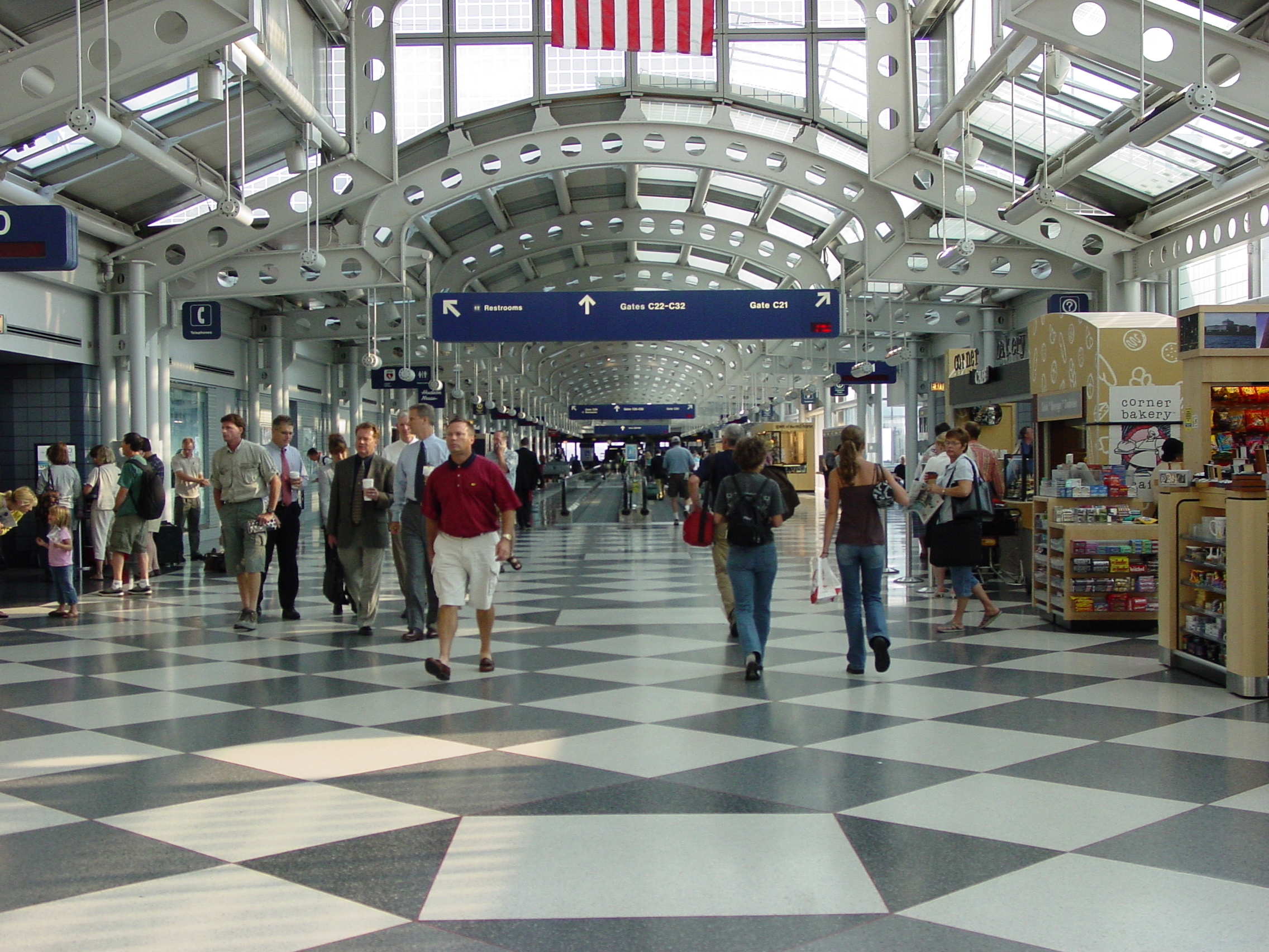 Taken by me